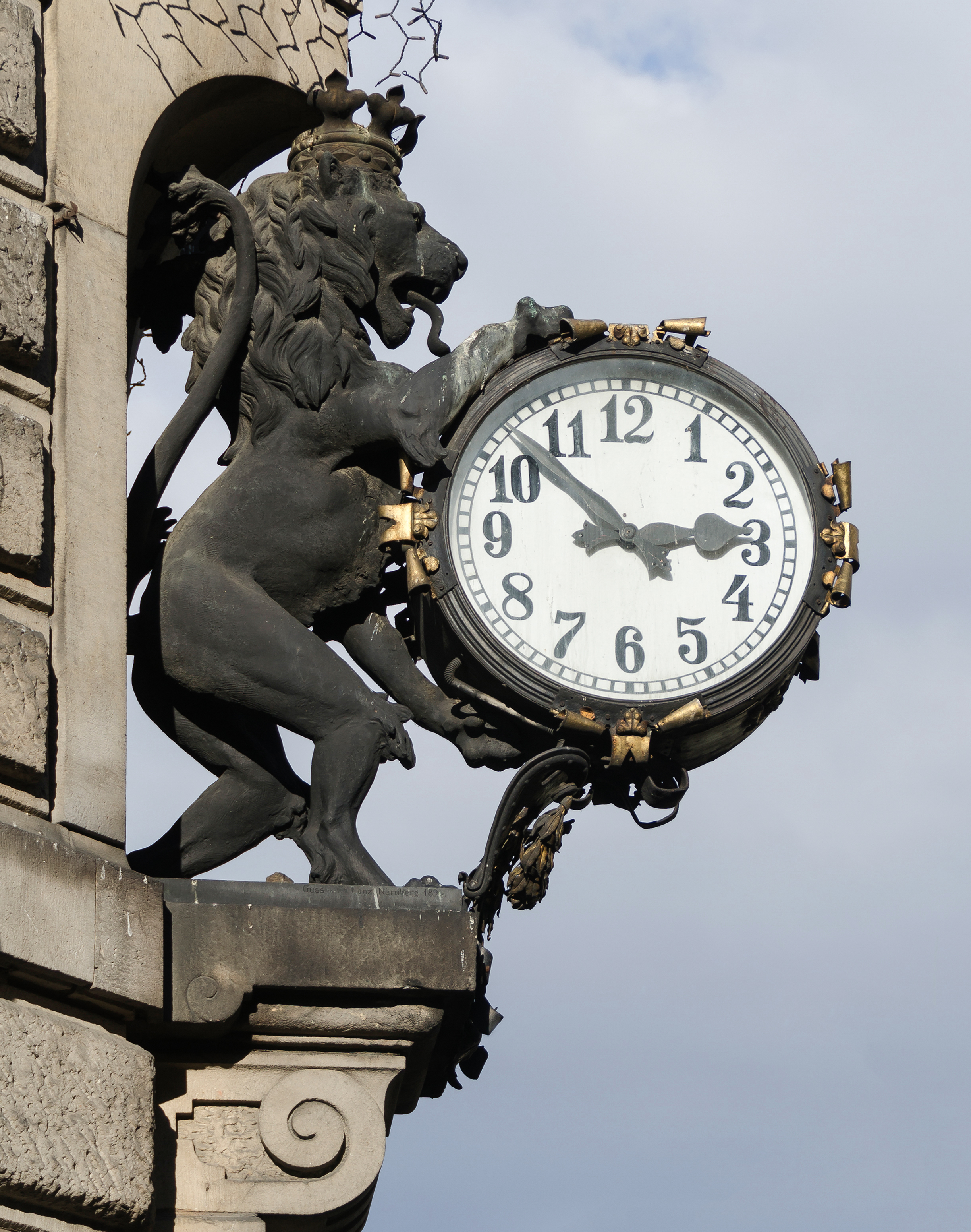 Town hall in Kłodzko Ta fotografia przedstawia zabytek wpisany do rejestru zabytków pod numerem ID 592699